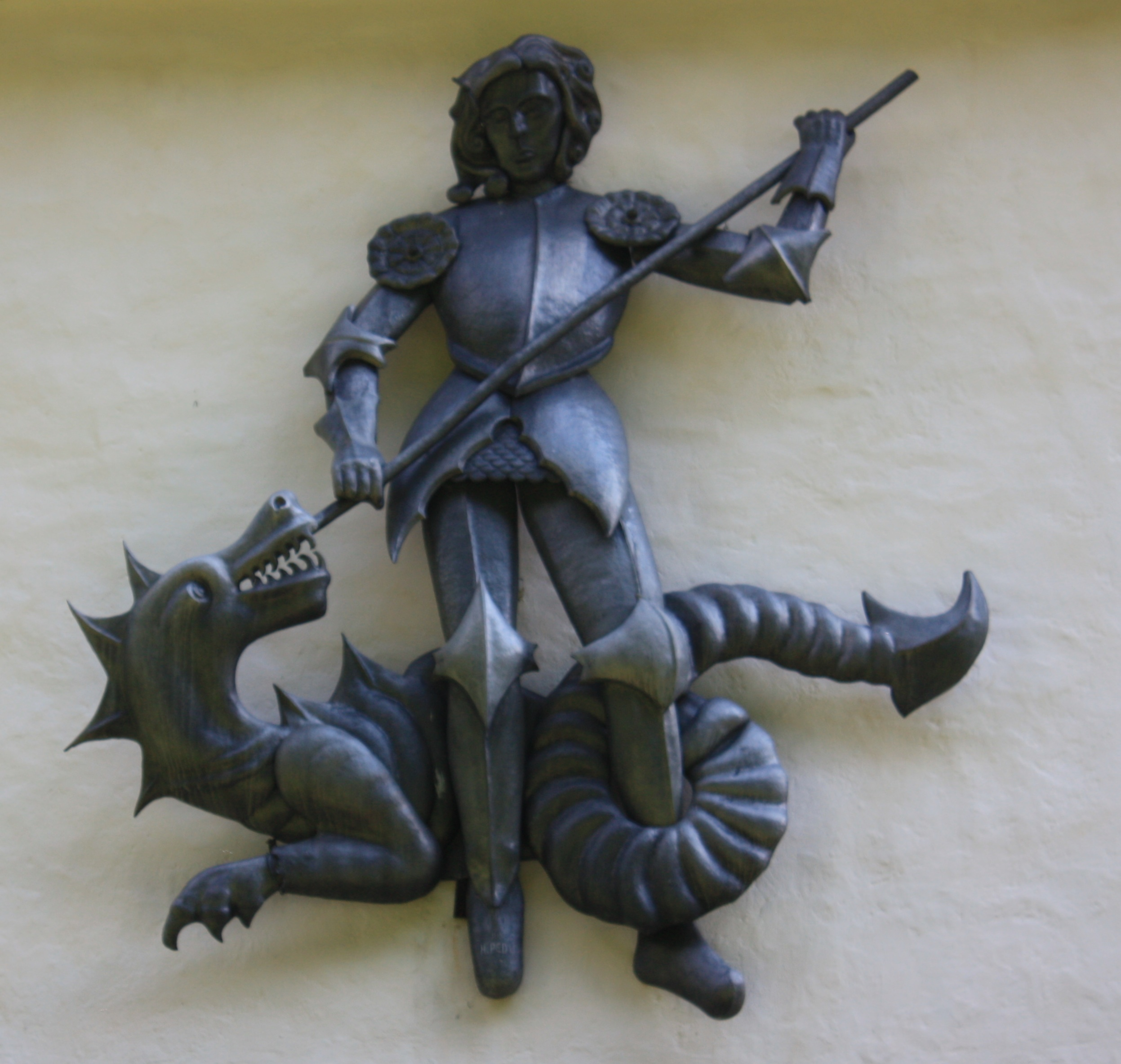 Parish church Ötting: Saint George Locality:Ötting Community:Oberdrauburg